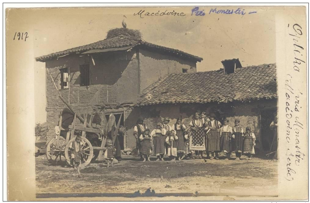 Optichari in the WWI